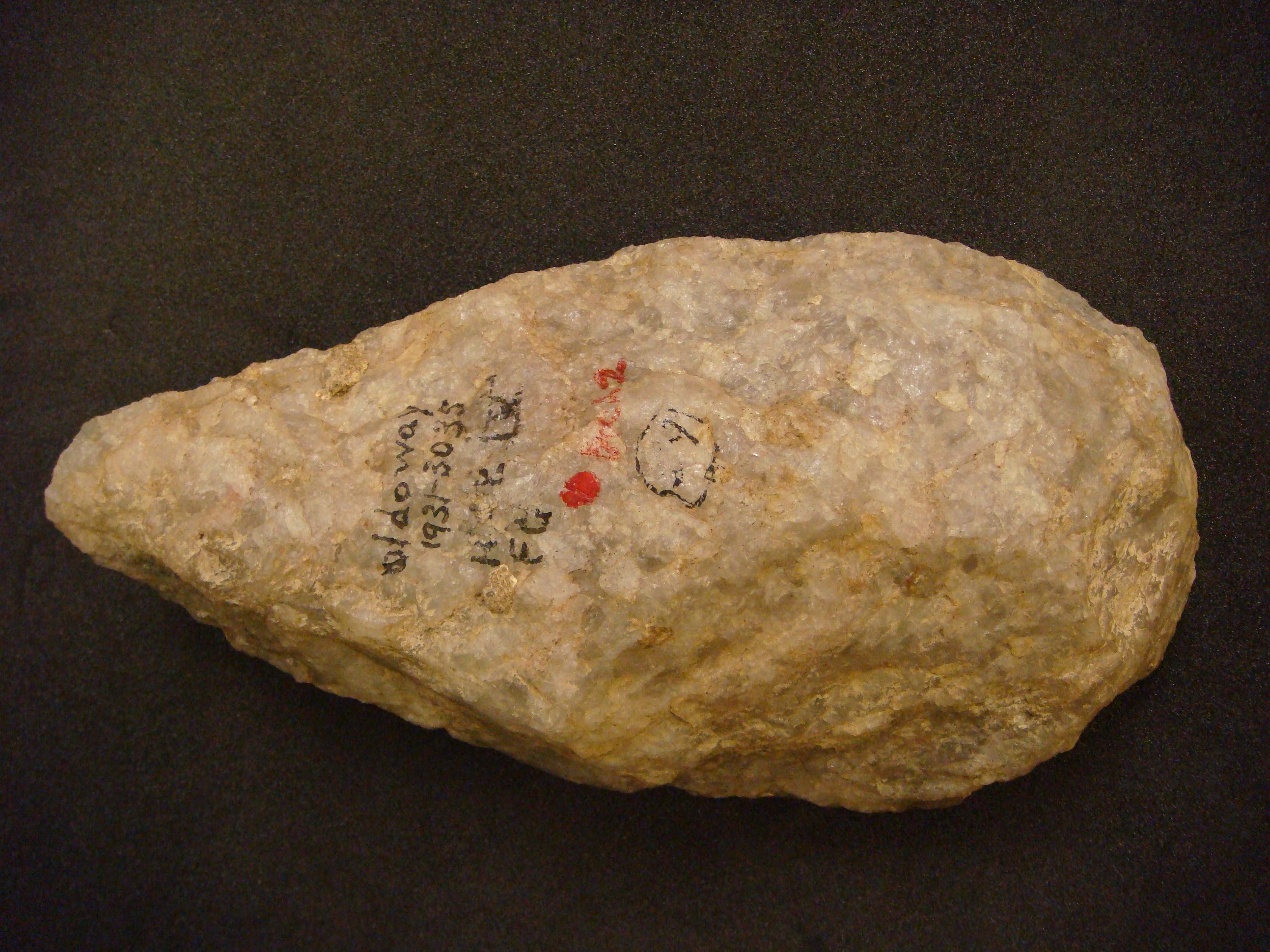 Palaeolithic granite axe, photo taken at British Museum Wikimedia workshop.